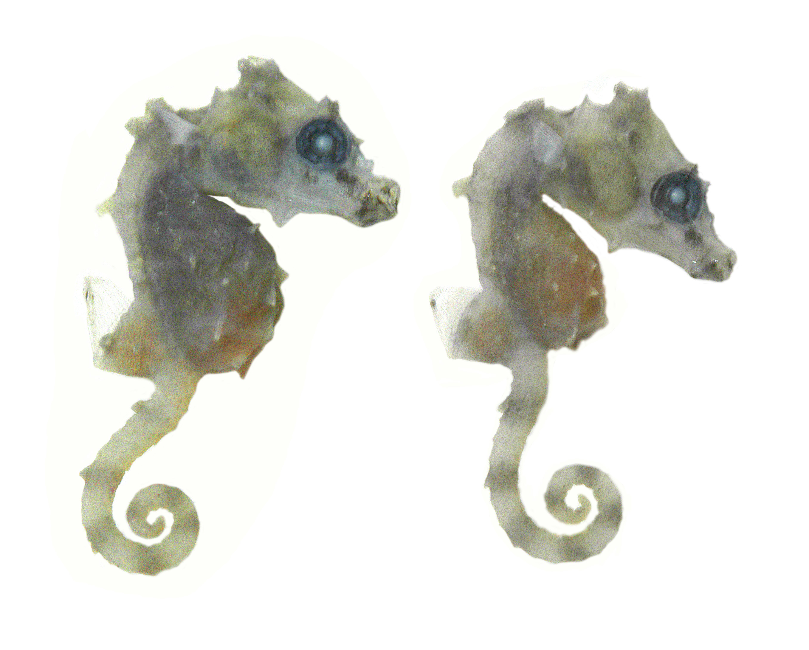 A photograph of the type specimen of Hippocampus satomiae